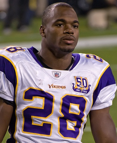 Lambeau Field, October 24, 2010. Photo by Mike Morbeck.